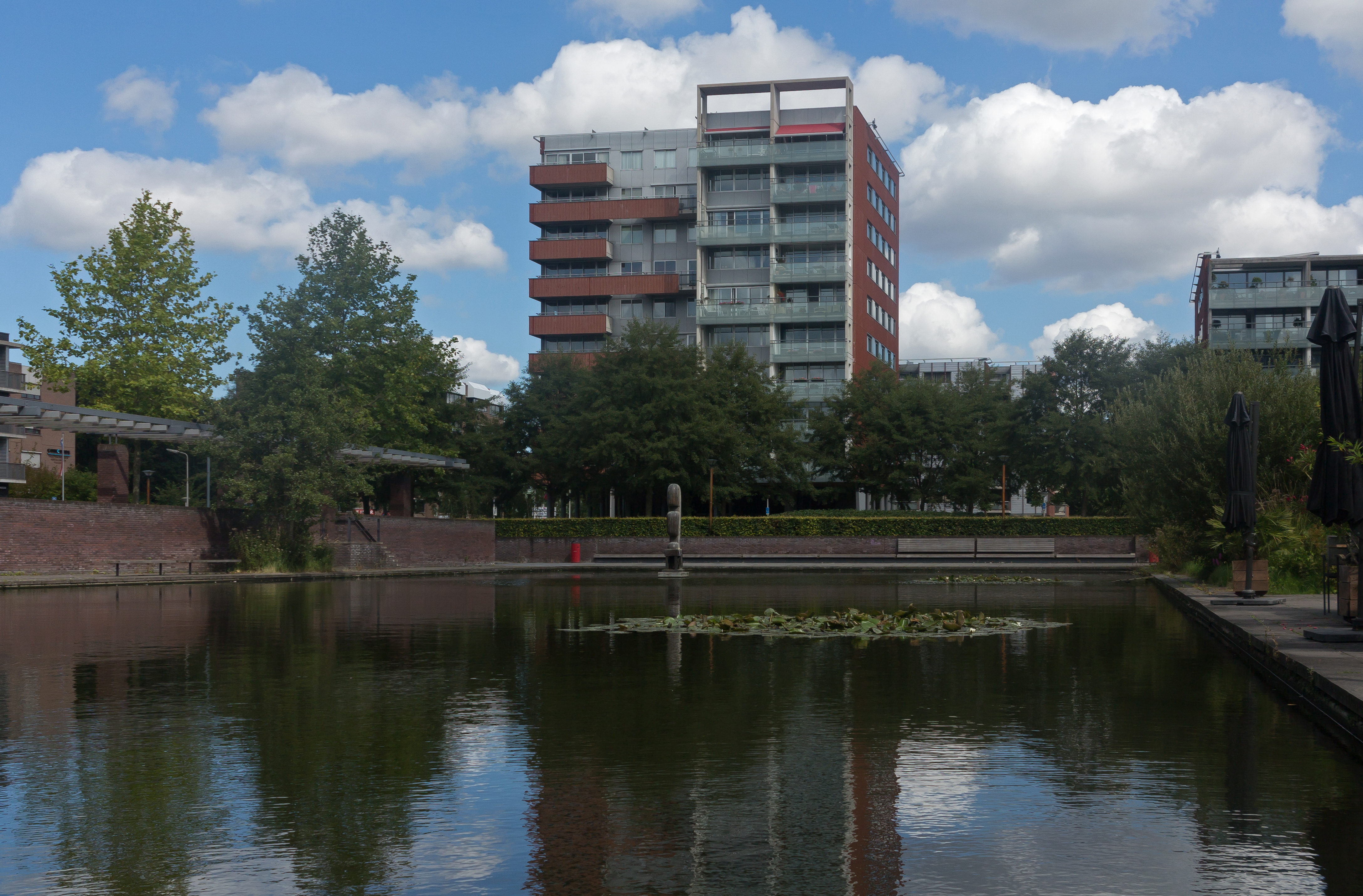 Amstelveen, water near restaurant